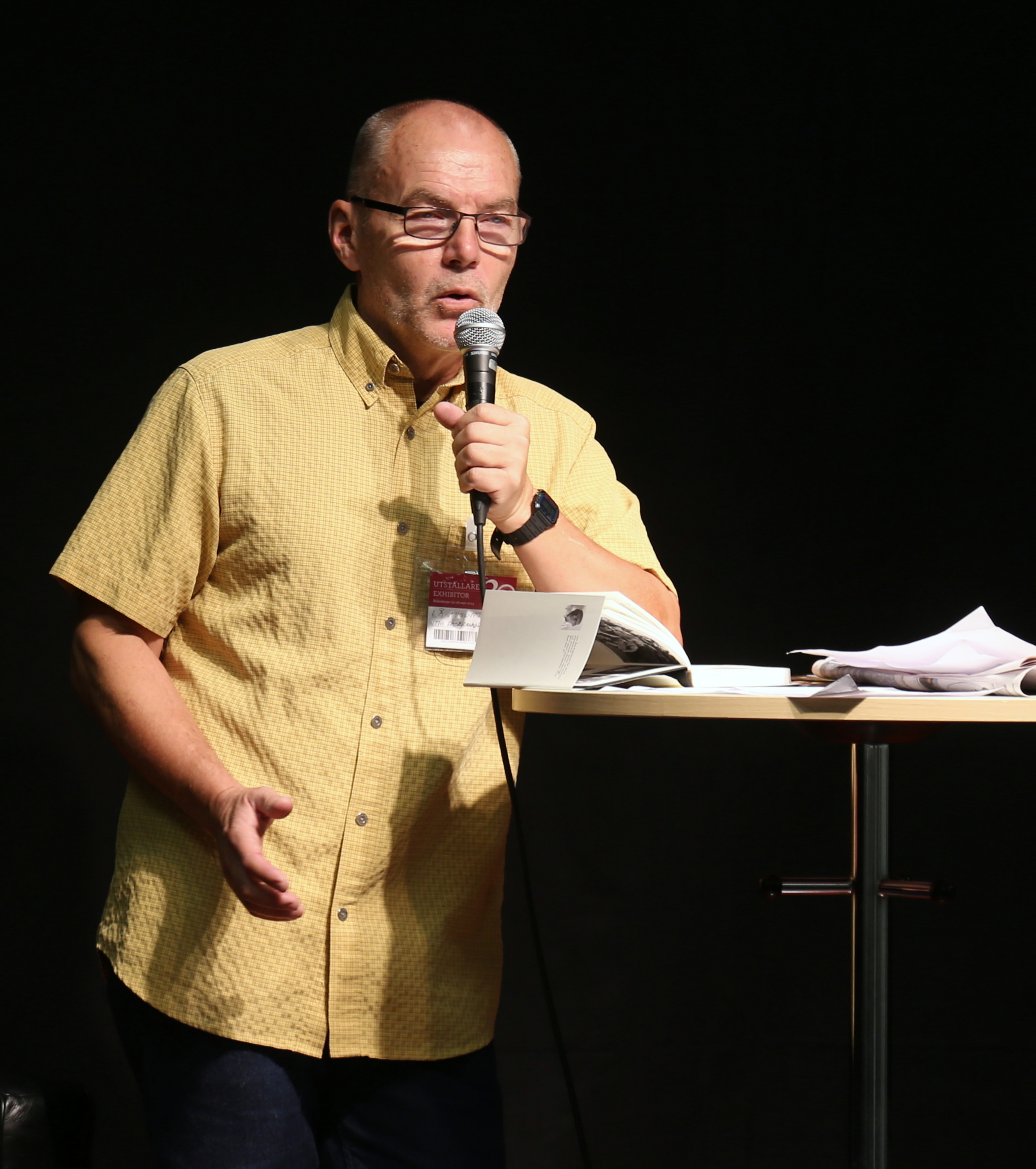 Lars Åke Augustsson at the Gothenburg Book Fair 2014.